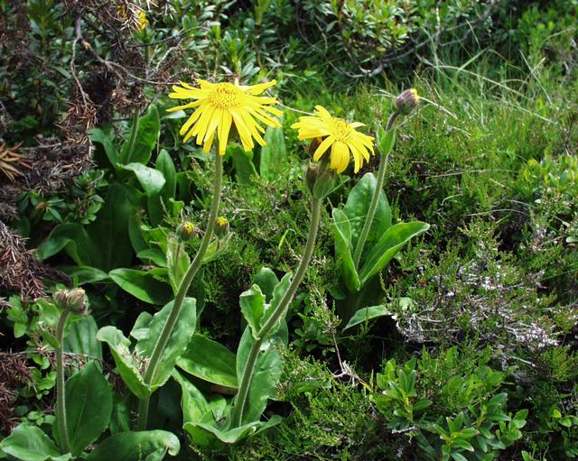 (en) Arnica montana, a photography originating of the internet site The accord of the autor, H. Brisse, is here. (fr) Arnica des montagnes (Arnica montana), une photographie issue du site internet L'accord de l'auteur, H. Brisse, se situe ici.